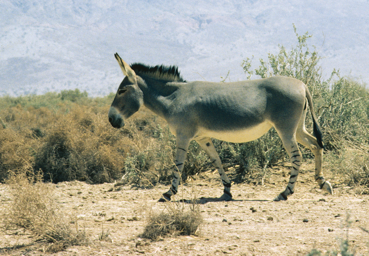 Somali wild ass Equus africanus somaliensis originating from Eritrea, in Hai Bar Yotvata wildlife park, Israel, April 1980. Photo: C. Smeenk.